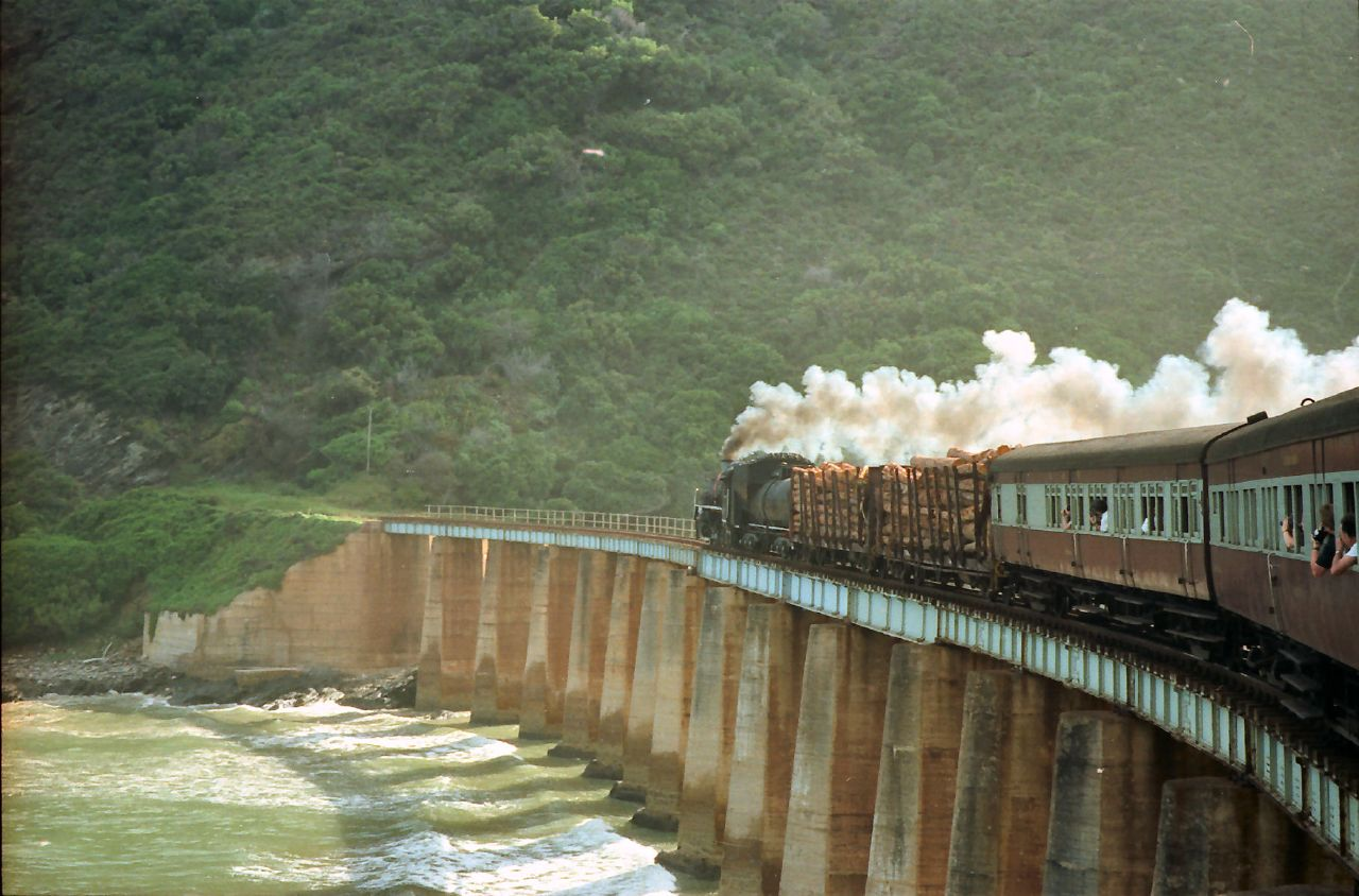 Train on Kaaimans River bridge, South Africa, March 1996